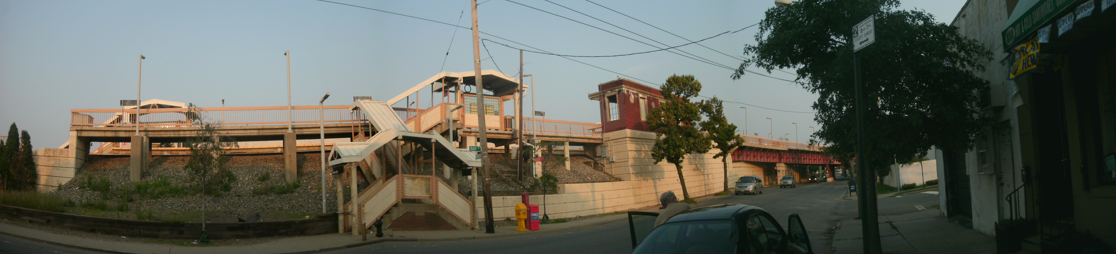 Clifton Station panorama seen from Bay Street.